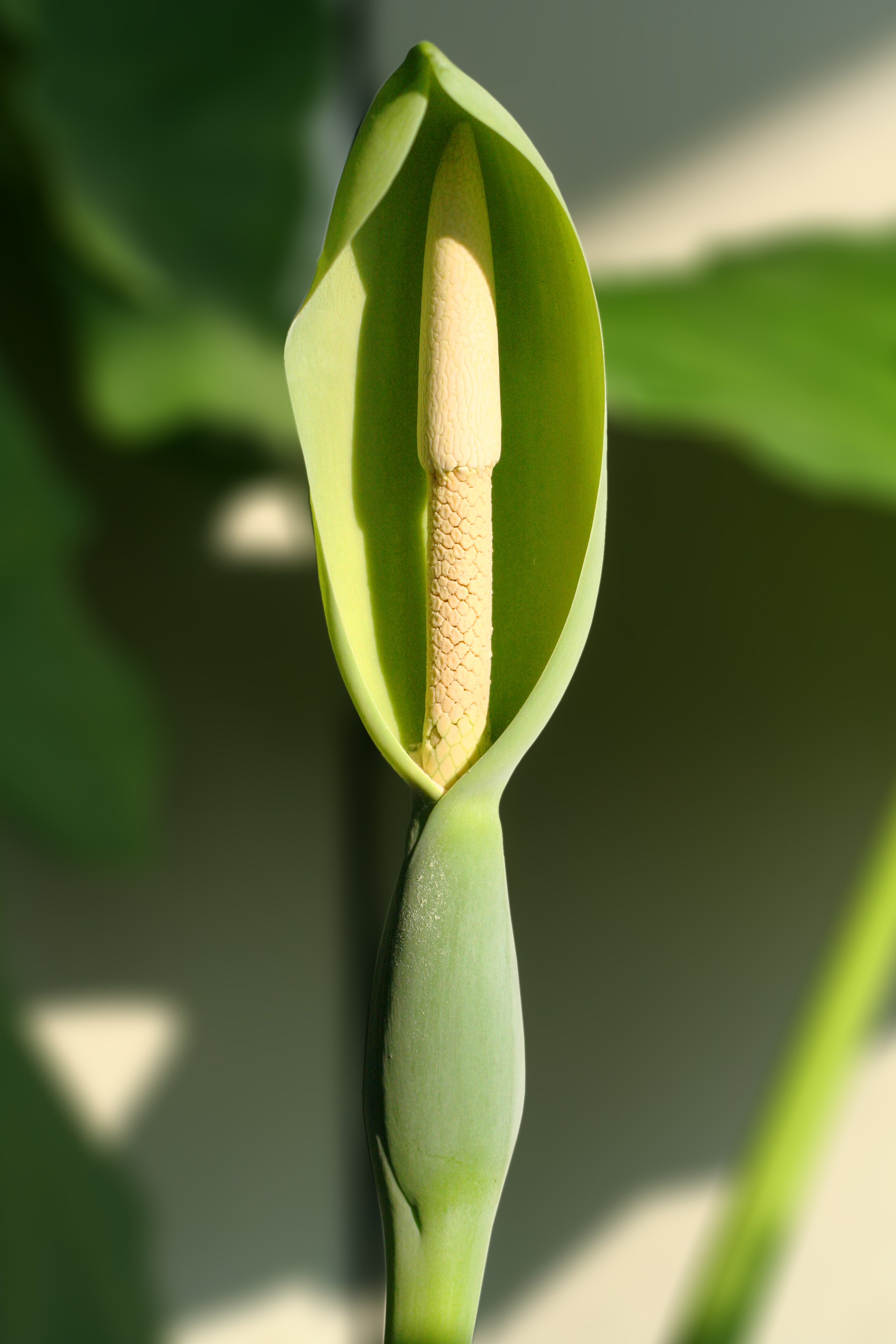 Blossom of Alocasia macrorrhizos, Araceae, Giant Taro, Elephant Ear Taro, inflorescence